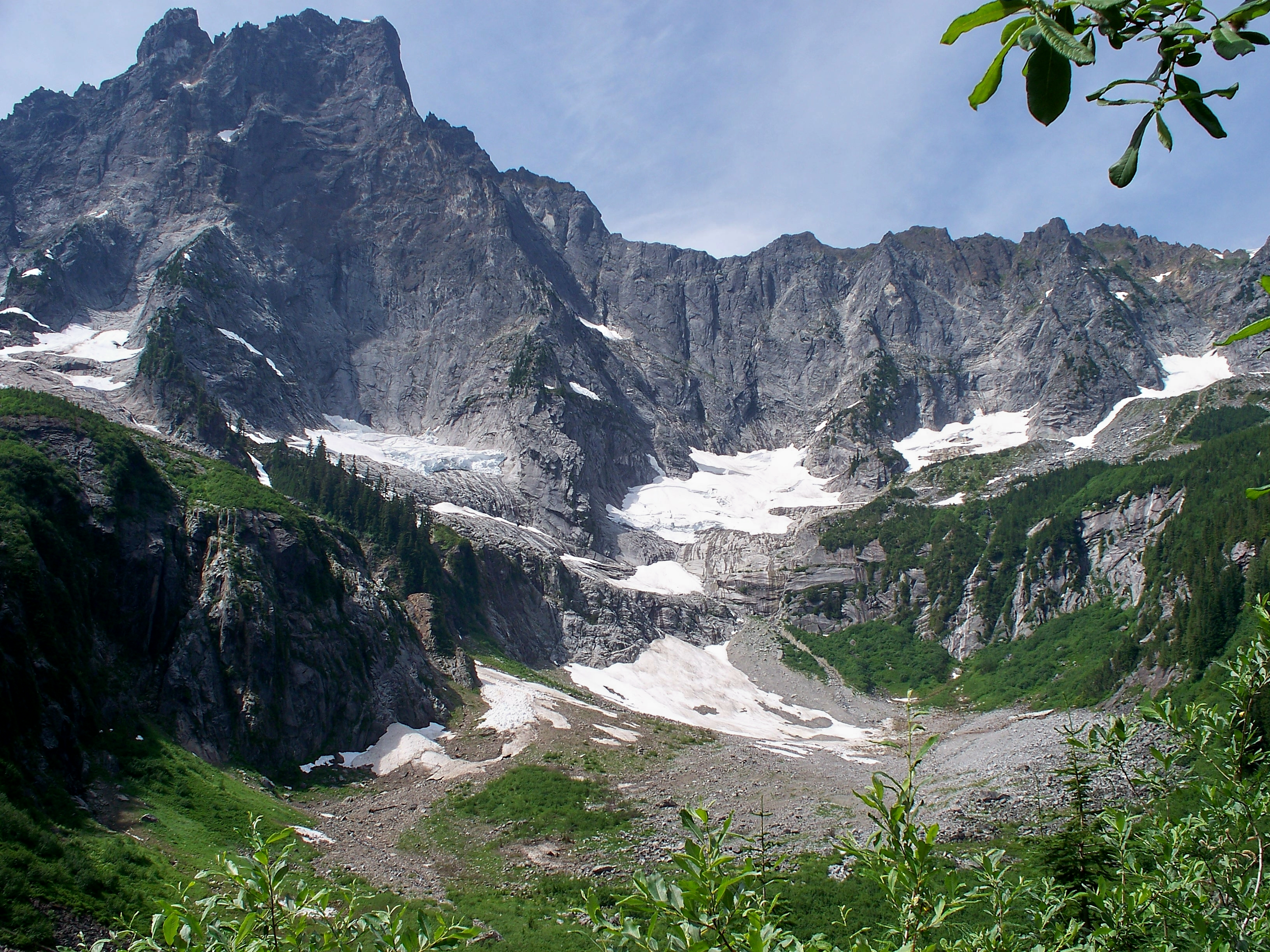 Slesse Mountain from the memorial on its flank.